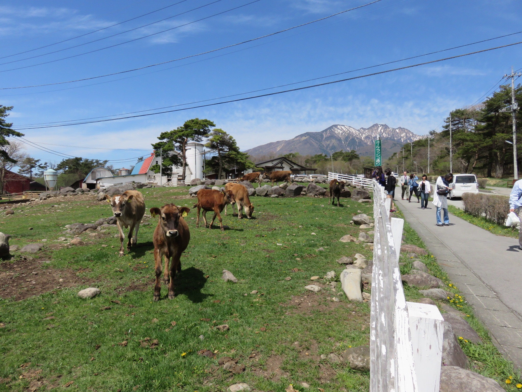 KEEP, Jersey cattle